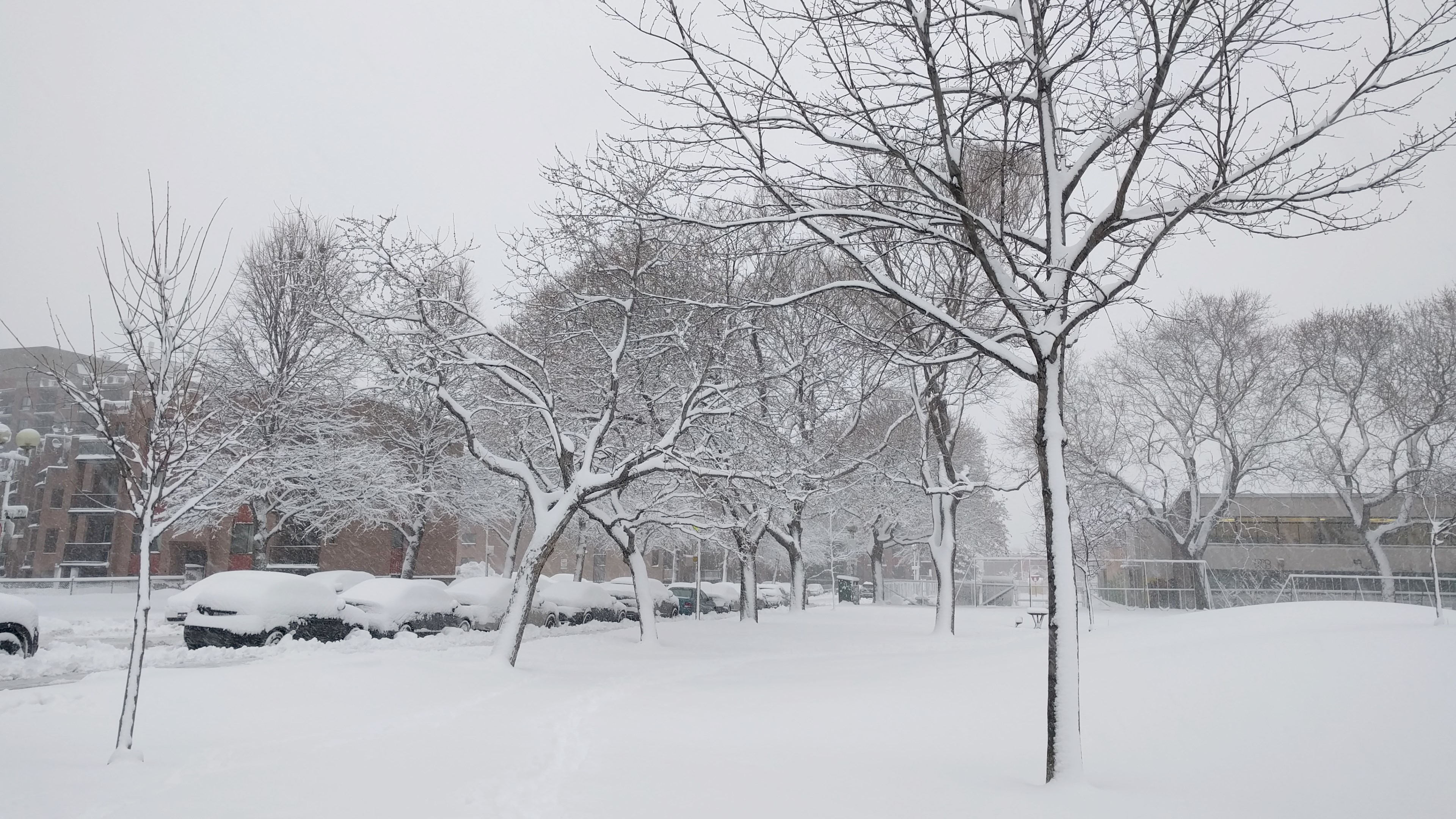 Heavy snow in Montreal City